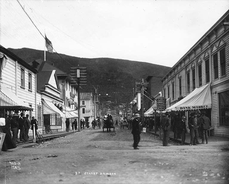 Caption on image: "3rd Street Dawson" Original image in Hegg Album 26, page 8 . Original photograph by Eric A. Hegg 858; copied by Webster and Stevens 403.A . Klondike Gold Rush. Subjects (LCTGM): Streets--Yukon--Dawson; Business districts--Yukon--Dawson Subjects (LCSH): Third Street (Dawson, Yukon); Bank Market (Dawson, Yukon)